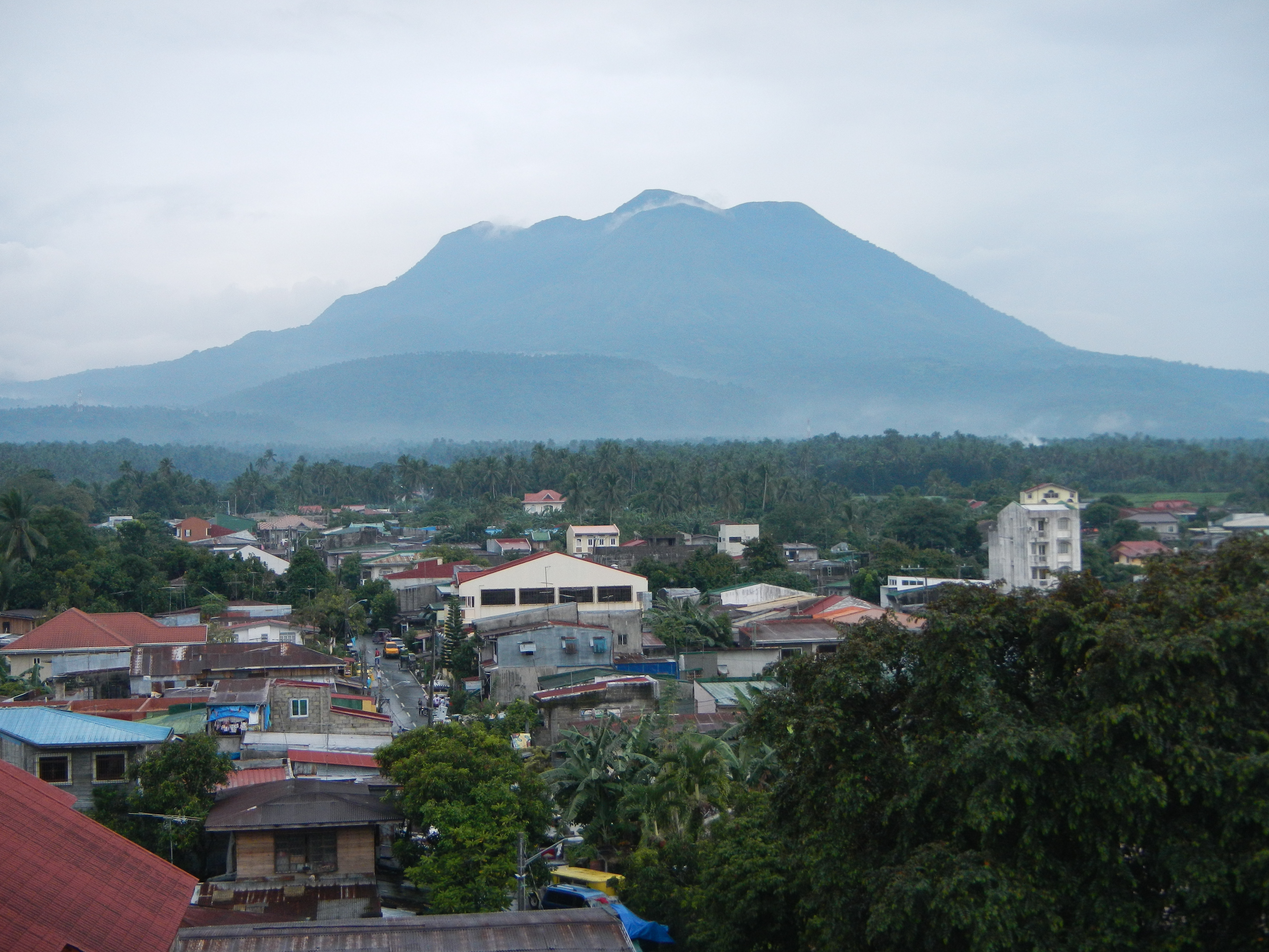 Mount San Cristobal as seen from San Bartolome Apostol Parish Church in Nagcarlan, Laguna in the Philippines.